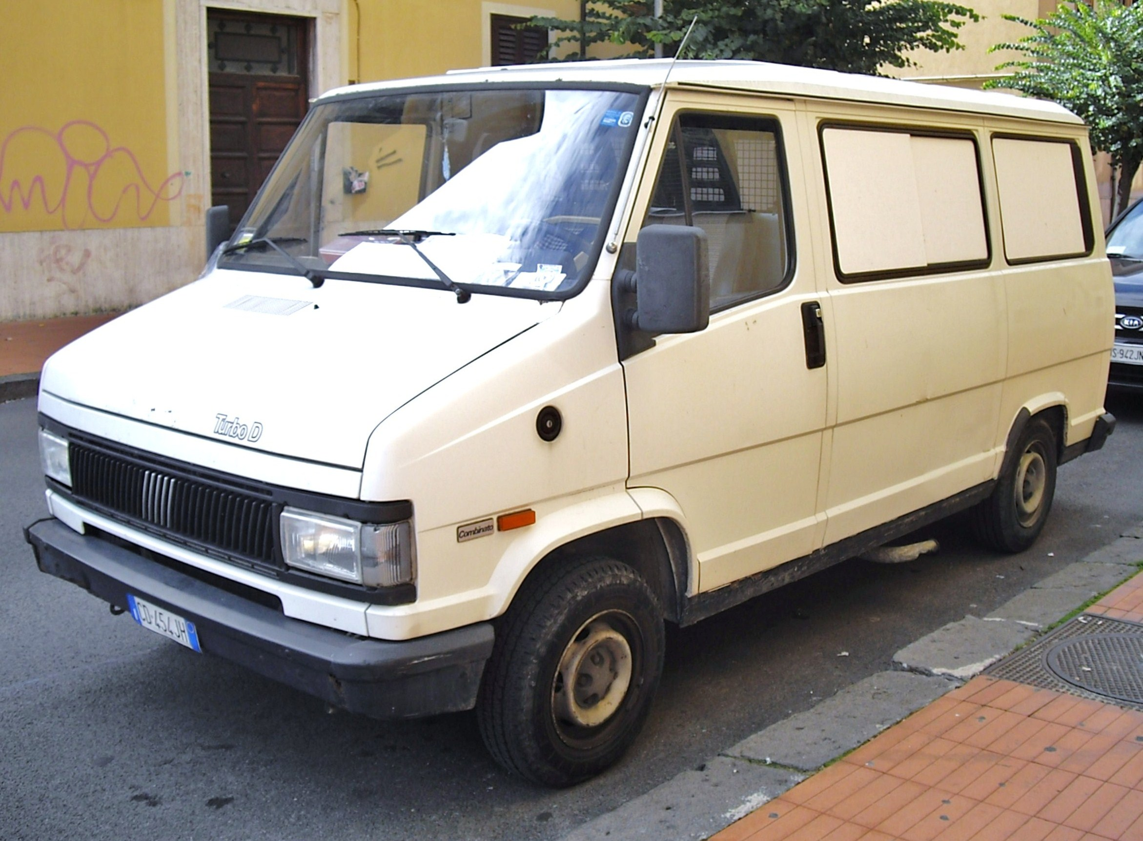 Fiat Ducato Turbo D front